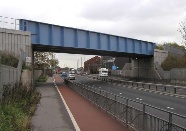 The New Hedon Road Railway Bridge, Hull, East Riding of Yorkshire, England. This is the view looking eastwards. The bridge replaced a similar shorter one to accommodate the new Hedon Road dual carriageway and cycle track.